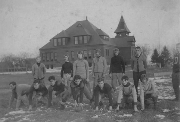 Thornton Academy Football, 1908. Saco, Maine.